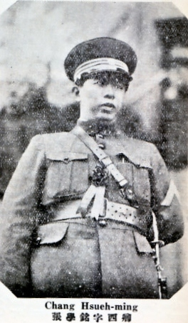 Zhang Xueming (Chang Hsüe-ming) (1908 - 1983)